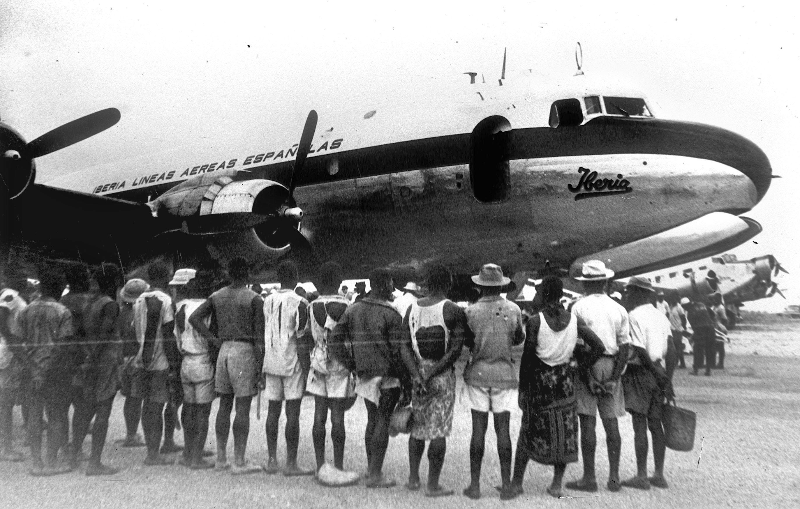 En junio de 1941, llegaba a, entonces, Guinea Española (hoy Guinea Ecuatorial) el primer vuelo de Iberia Santa Isabel-Bata. The arrival of the new airline's first flight from Madrid to the city of Bata in the colony of Spanish Guinea (today's Equatorial Guinea). L'arrivée à Bata du premier vol reliant Madrid à la colonie de la Guinée espagnole (aujourd'hui Guinée équatoriale) Juni 1941 landete die erste Iberiamaschine in der damals spanischen Guinea, heute Äquatorialguinea.